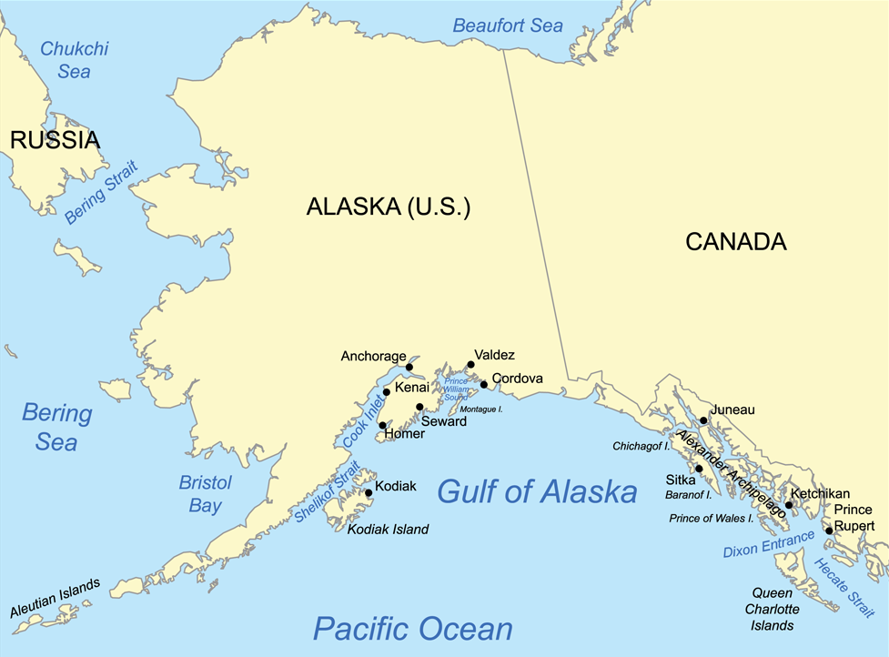 This map of the Gulf of Alaska.